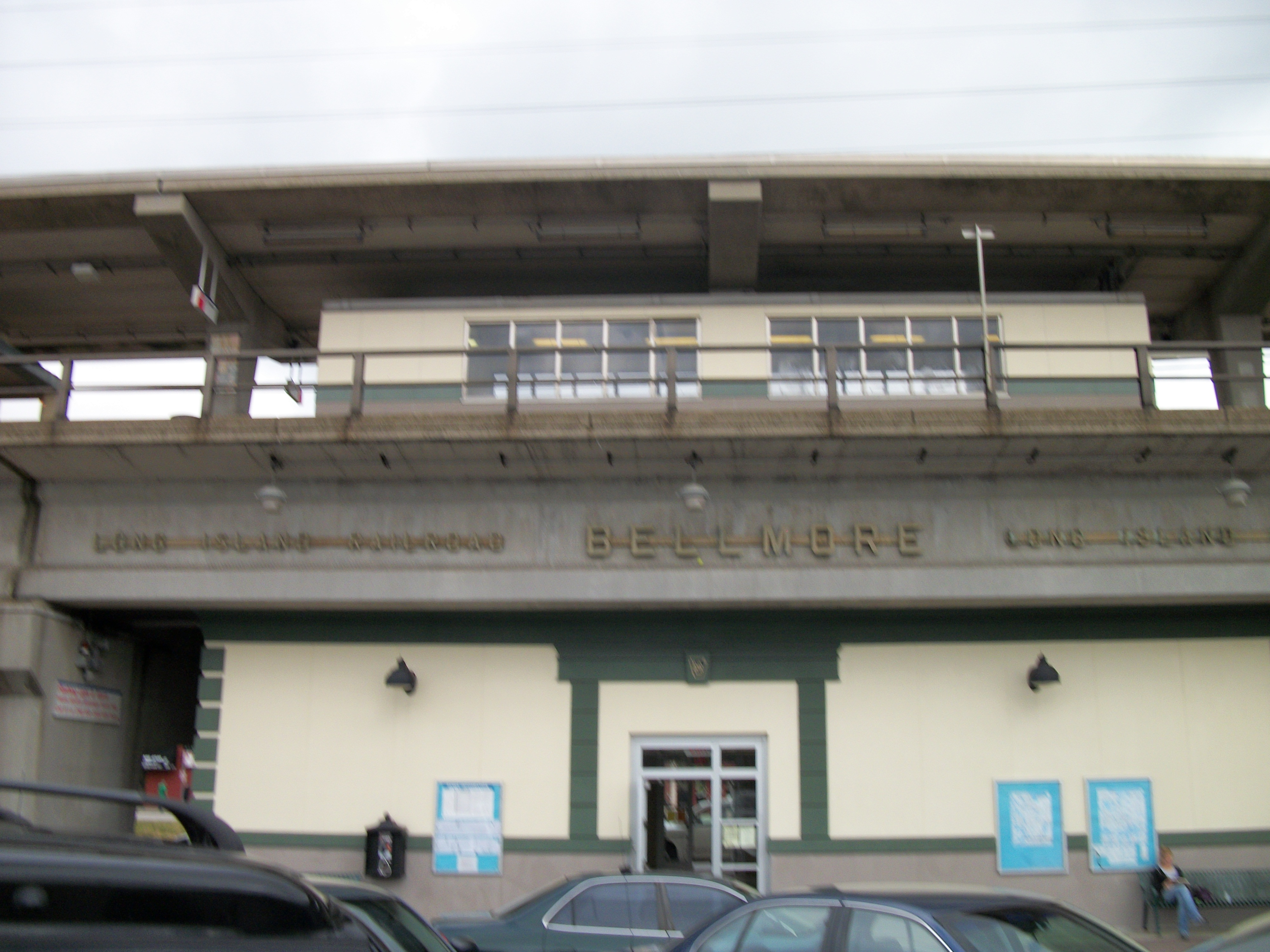 A shot of the Bellmore (LIRR station) in Bellmore, New York from the parking lot.